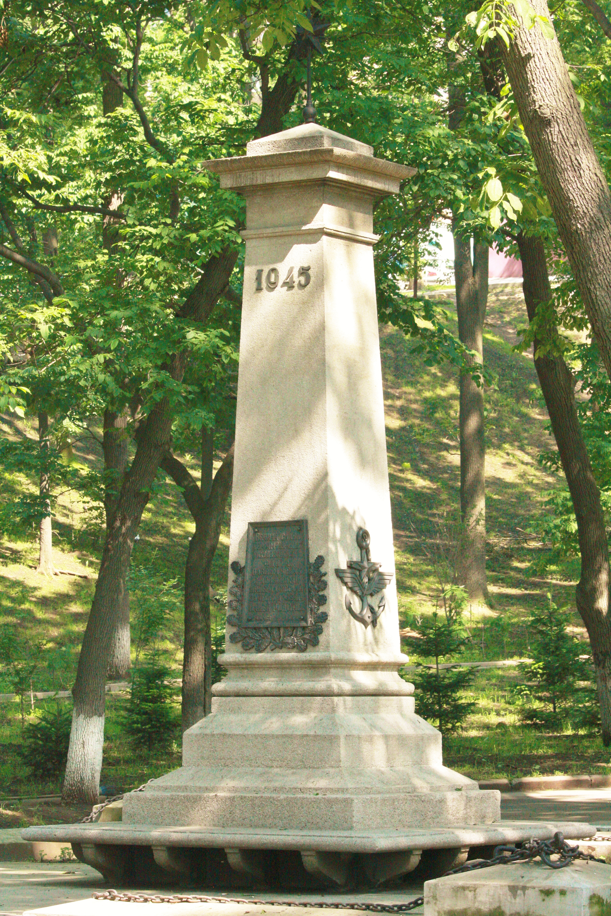 Морякам-тихоокеанцам, погибшим в борьбе с Японией